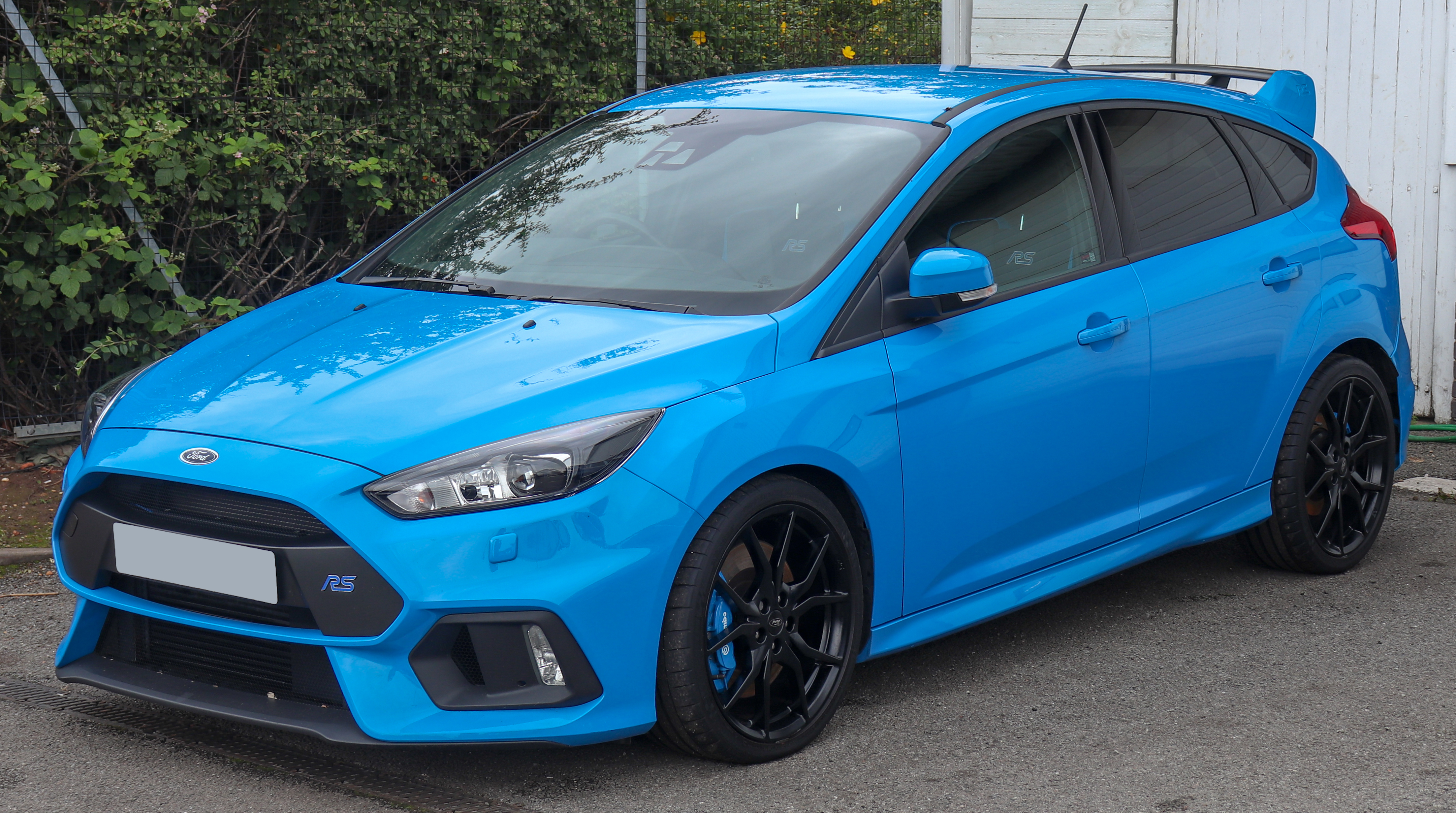 2017 Ford Focus RS 2.3 Taken in Leamington Spa